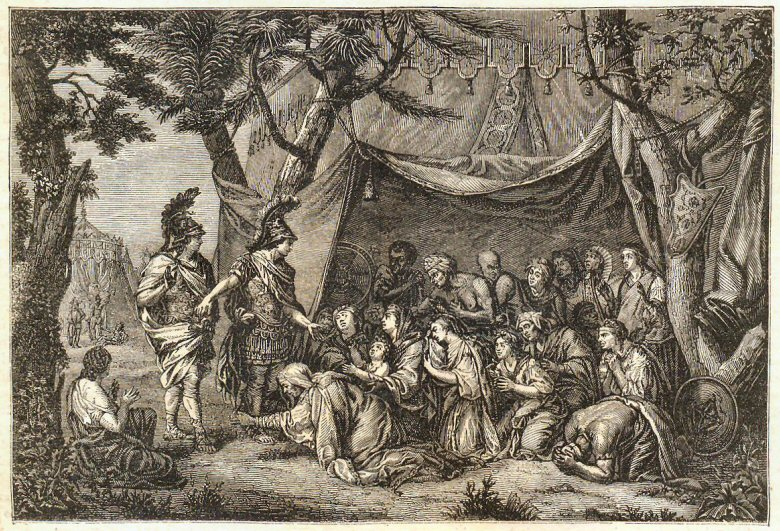 Alexander and Hephaistion visit the family of Darius in their tent after the battle of Issus. Engraved in 1852 from a painting dated 1661